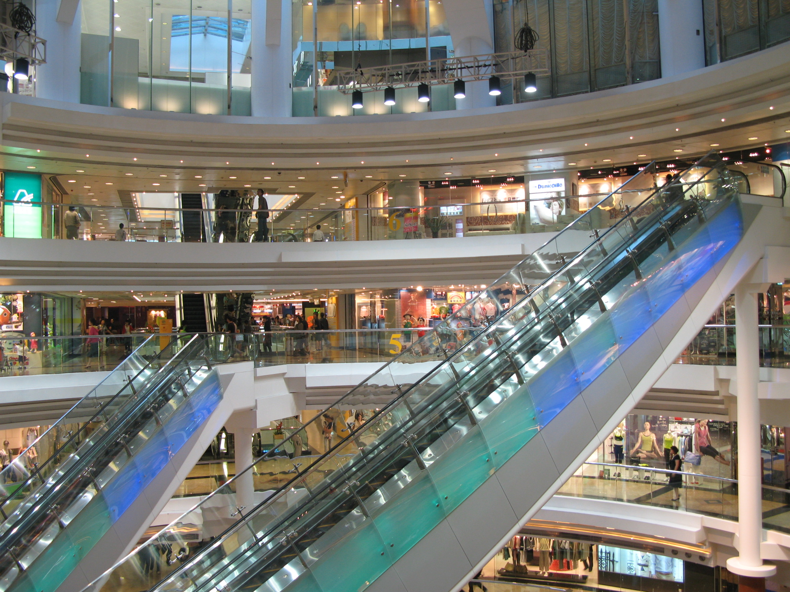 Grand Central Place VOID